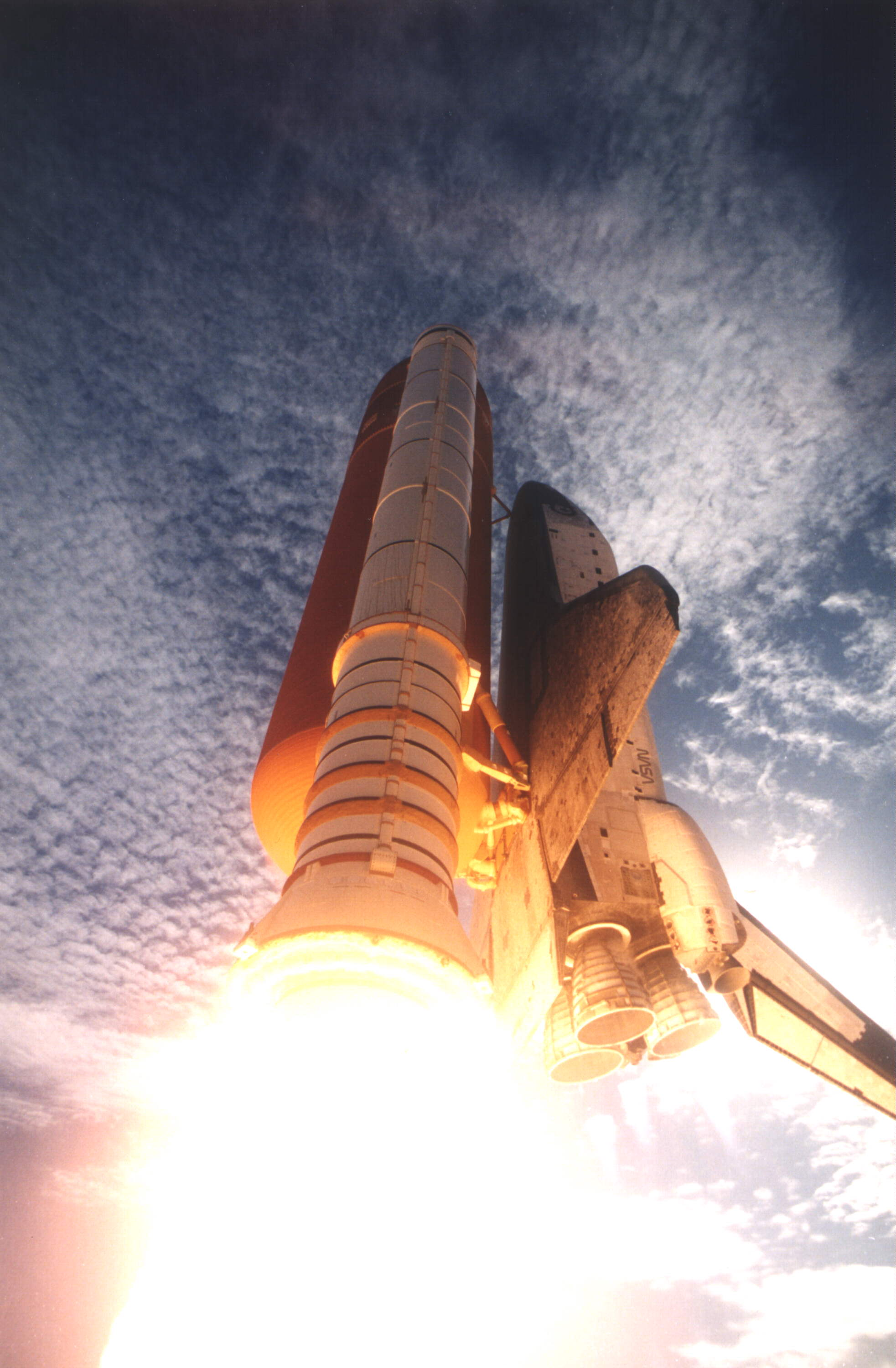 STS-73 Columbia launch from below